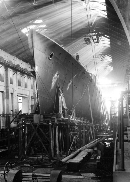 The Swedish destroyer HMS Stockholm during construction.